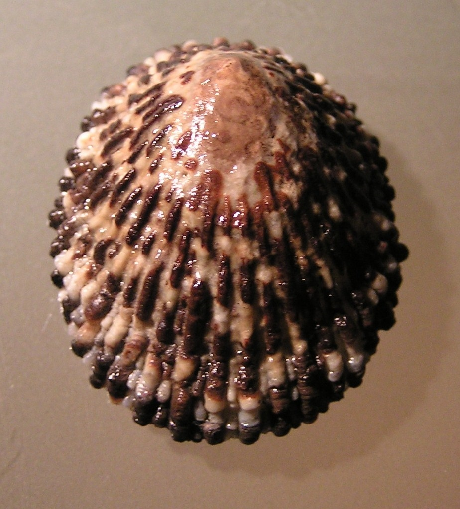 Cellana mazatlandica Sowerby, 1839; a keyhole limpet from the family Fissurellidae; Japan